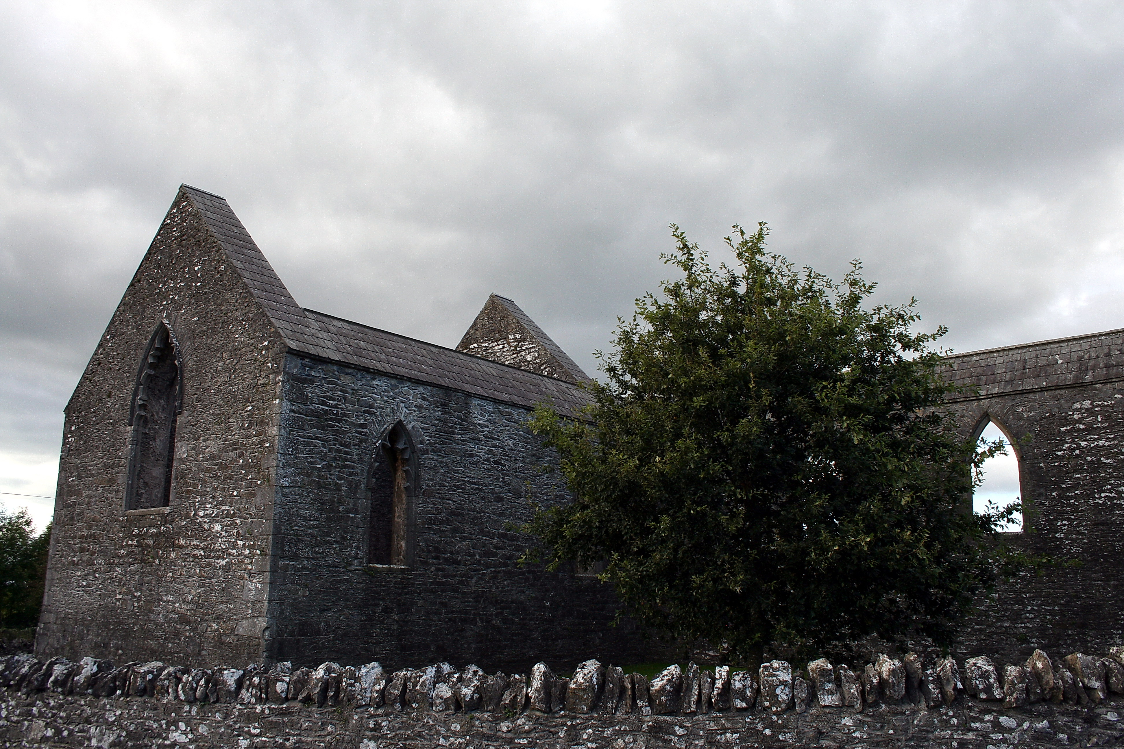 Aghaboe Priory, County Laois, Ireland